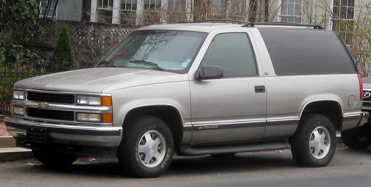 1997-1999 Chevrolet Tahoe photographed in Washington, D.C., USA.